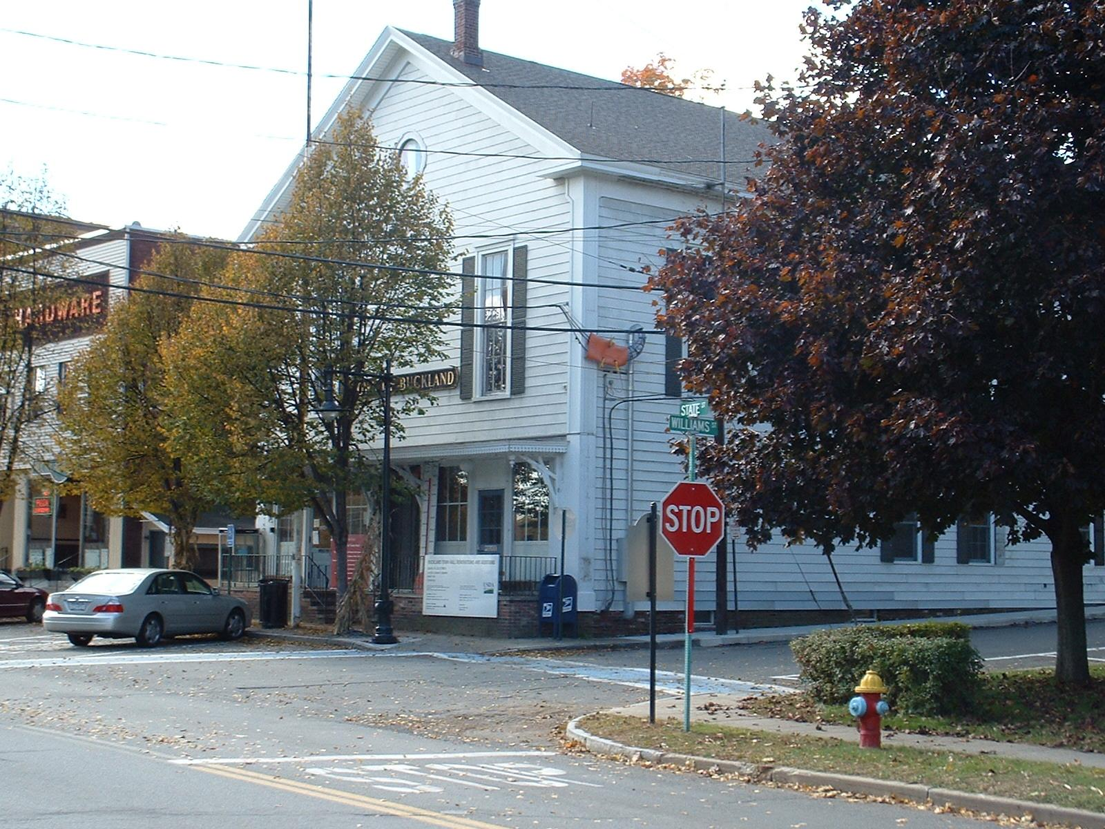 Buckland Town Hall, located in the village of Shelburne Falls, Massachusetts. Buckland Town Hall, State & Williams Sts, Shelburne Falls, MA